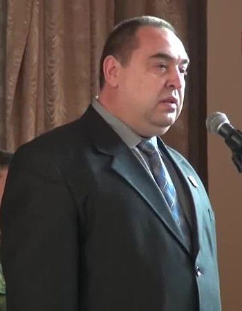 Ihor Plotnytskiy, head of the Luhansk Peoples Republic (disputed/unrecognized territory) of Eastern Ukraine, in December 2014.